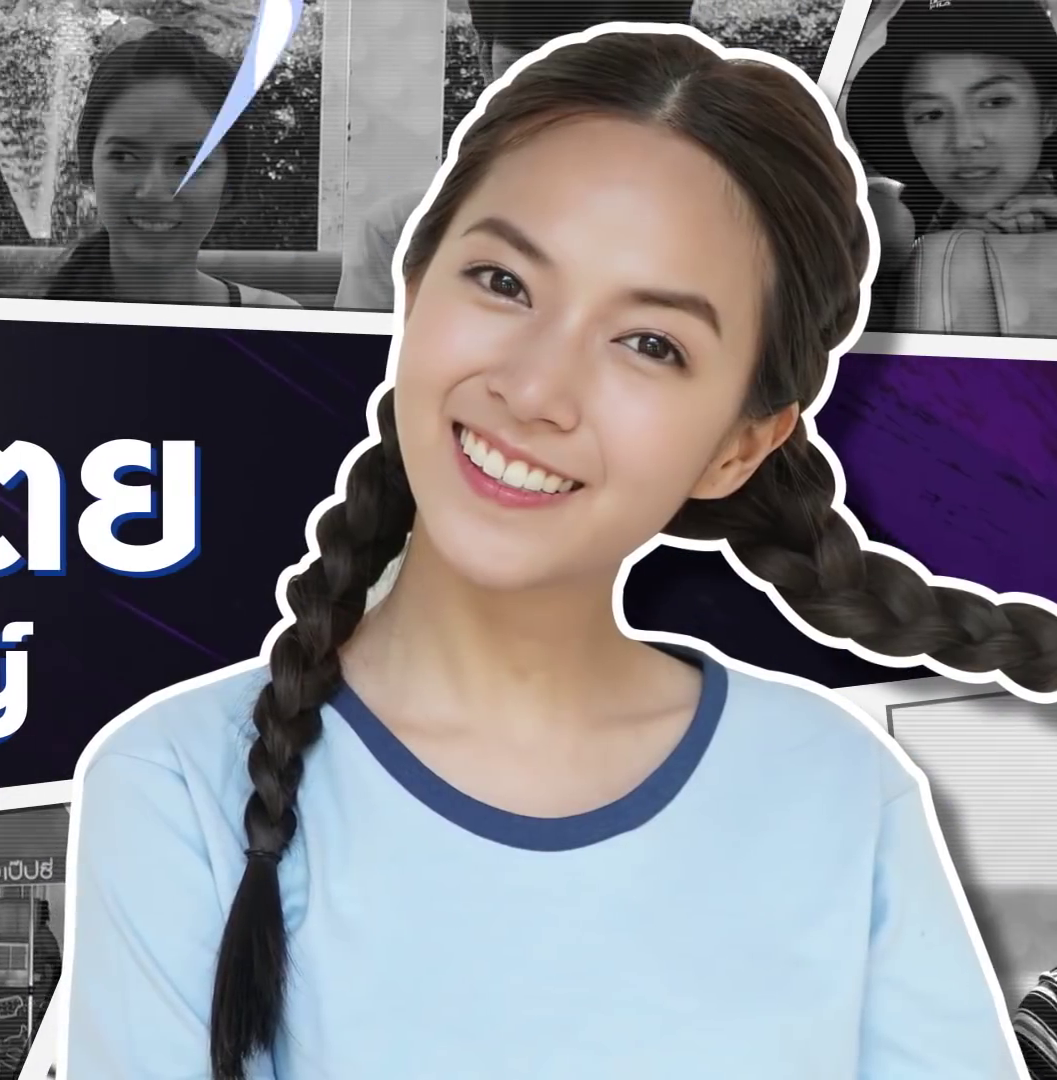 Zuvapit Traipornworakit, screen capture from promotional video for Game of Teens